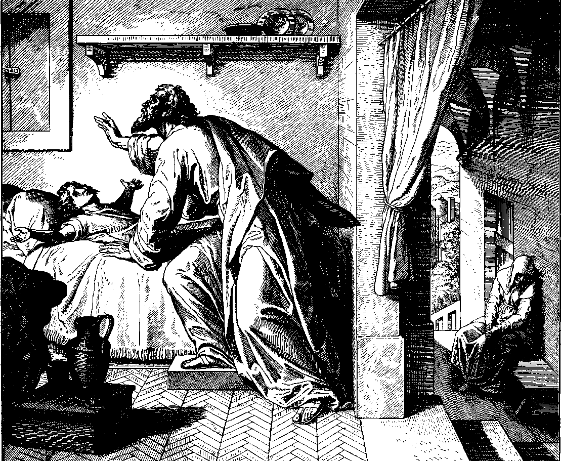 Woodcut for "Die Bibel in Bildern", 1860.